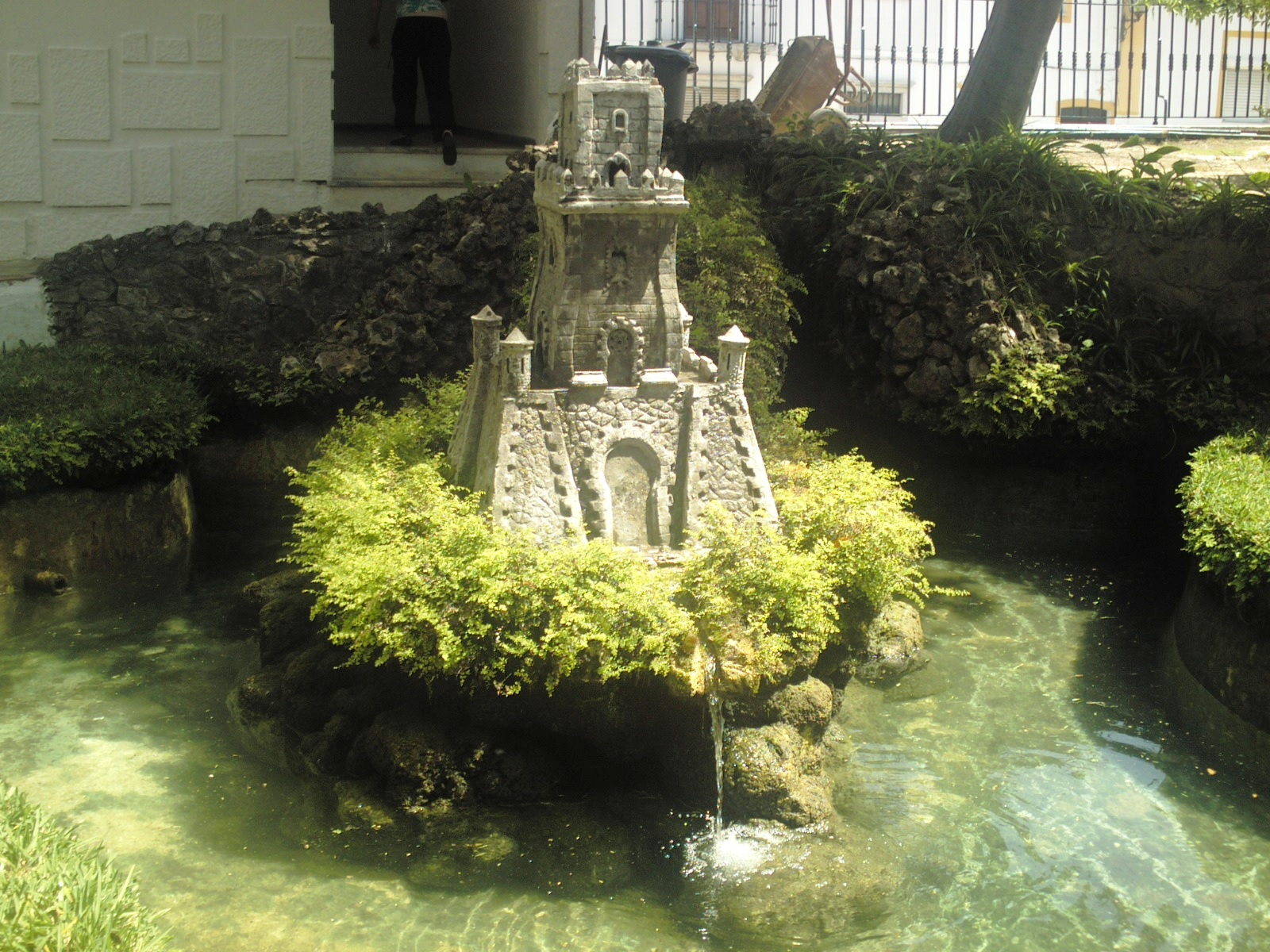 Mini castle at Moura park in Alentejo, Portugal